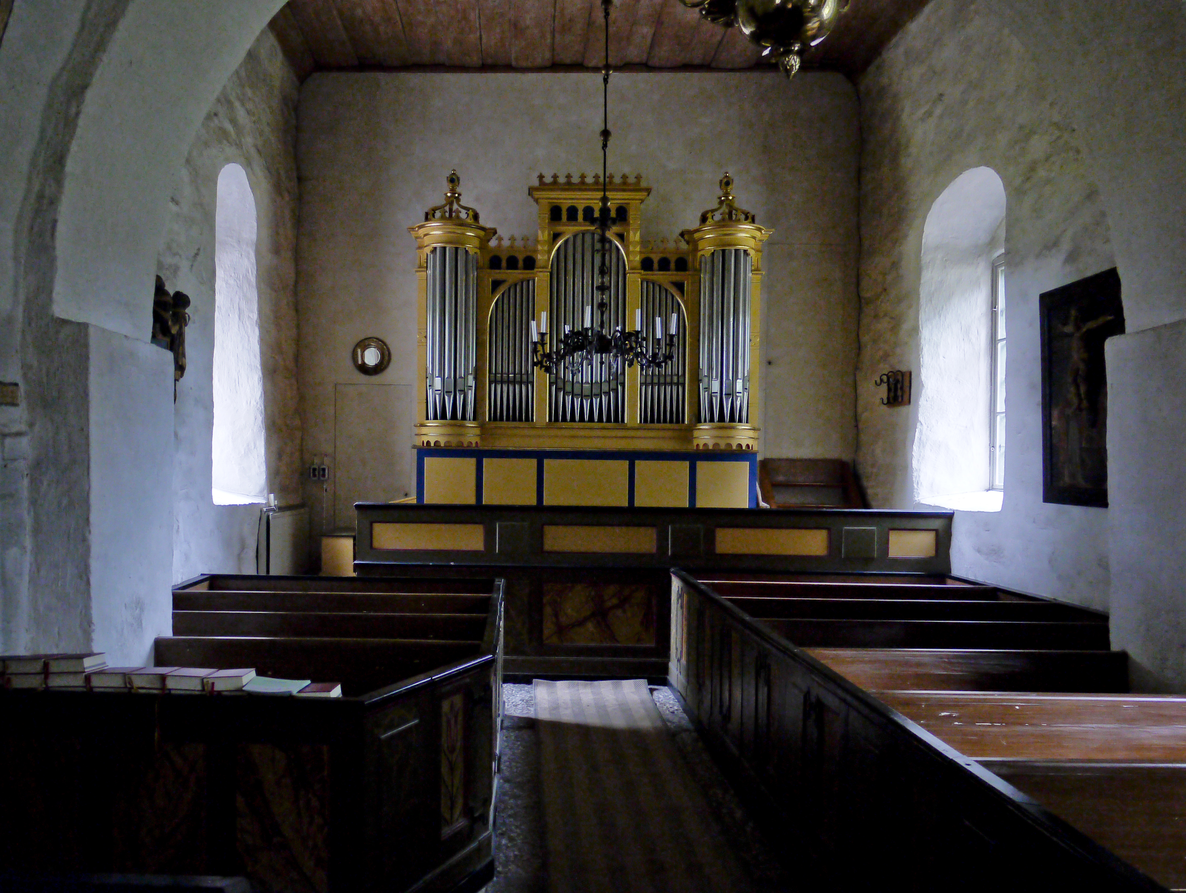 Väversunda kyrka/church. Diocese of Linköping. Organ.